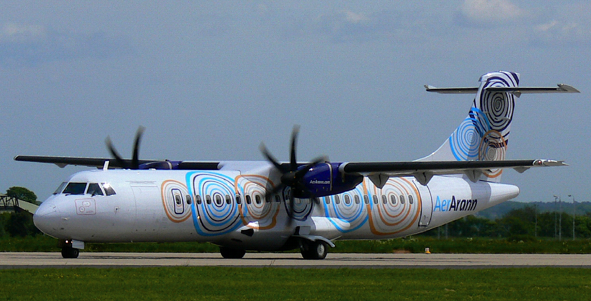 Aer Arann ATR 72 at Leeds Bradford Airport